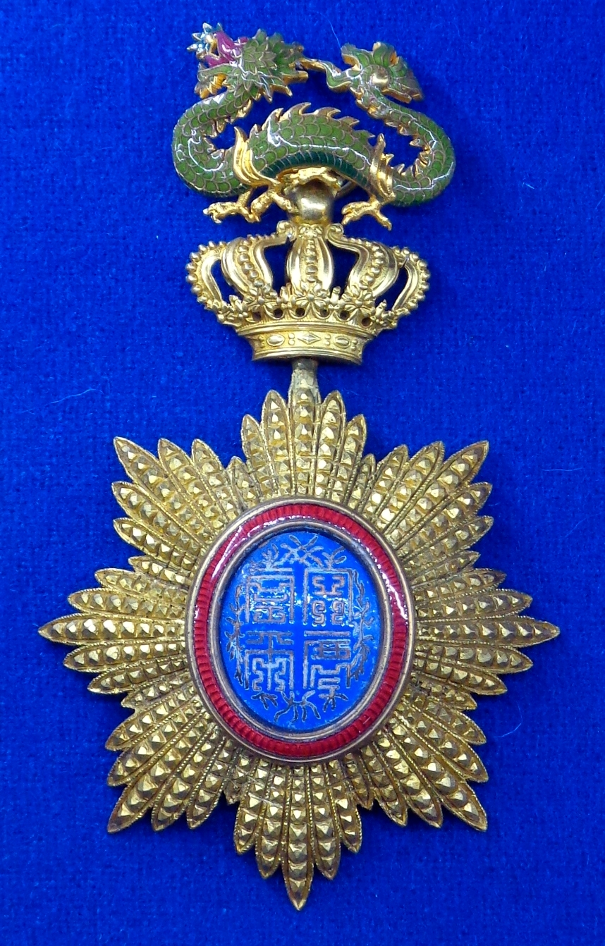 Order of the Dragon of Annam, badge of Grand Cross, 1896-1946. Empire of Annam, France. The exhibition of the Tallinn Museum of Orders of Knighthood, Estonia.